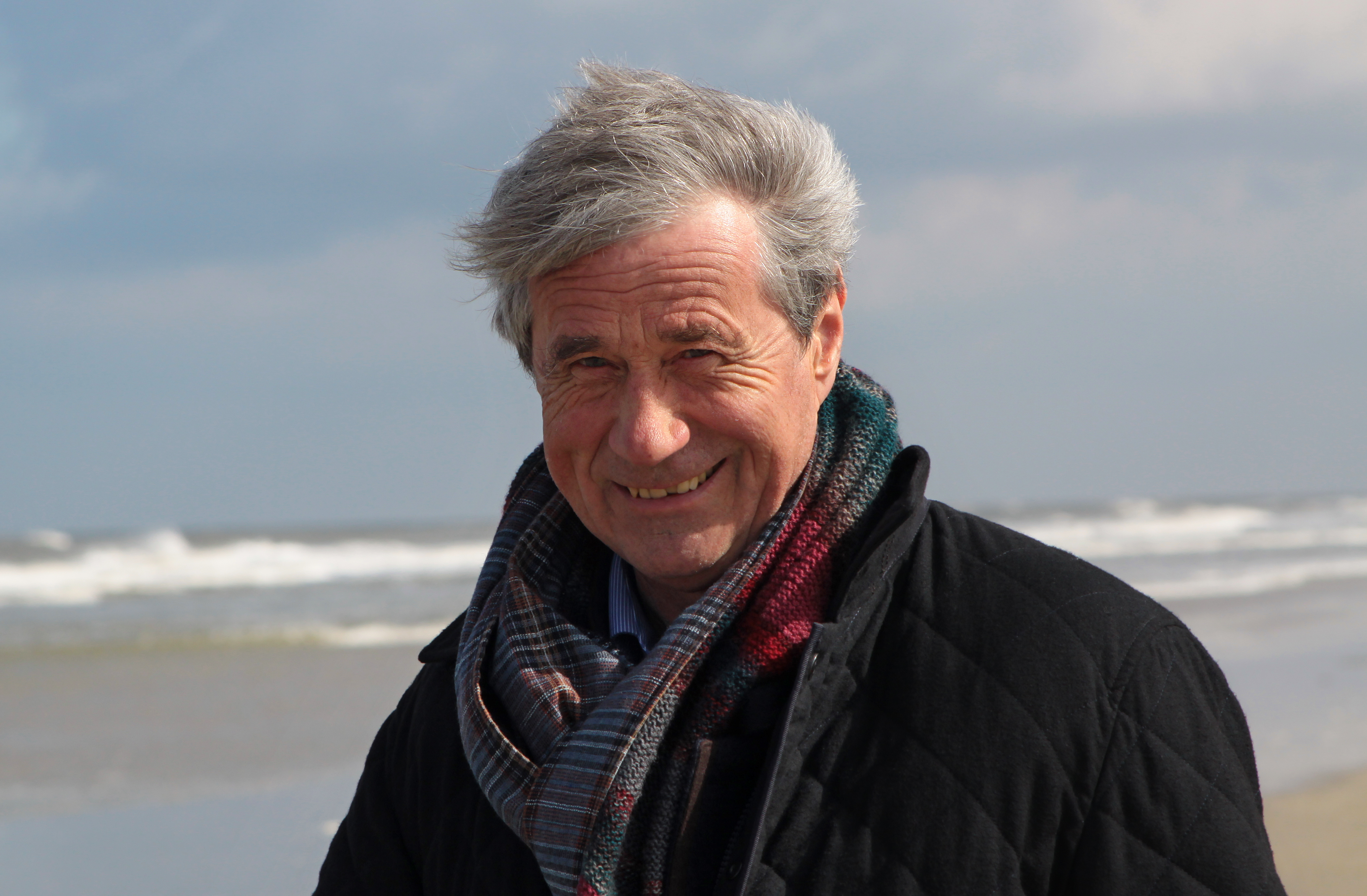 Urban planner and traffic expert Prof. Heiner Monheim on the North Sea island of Langeoog